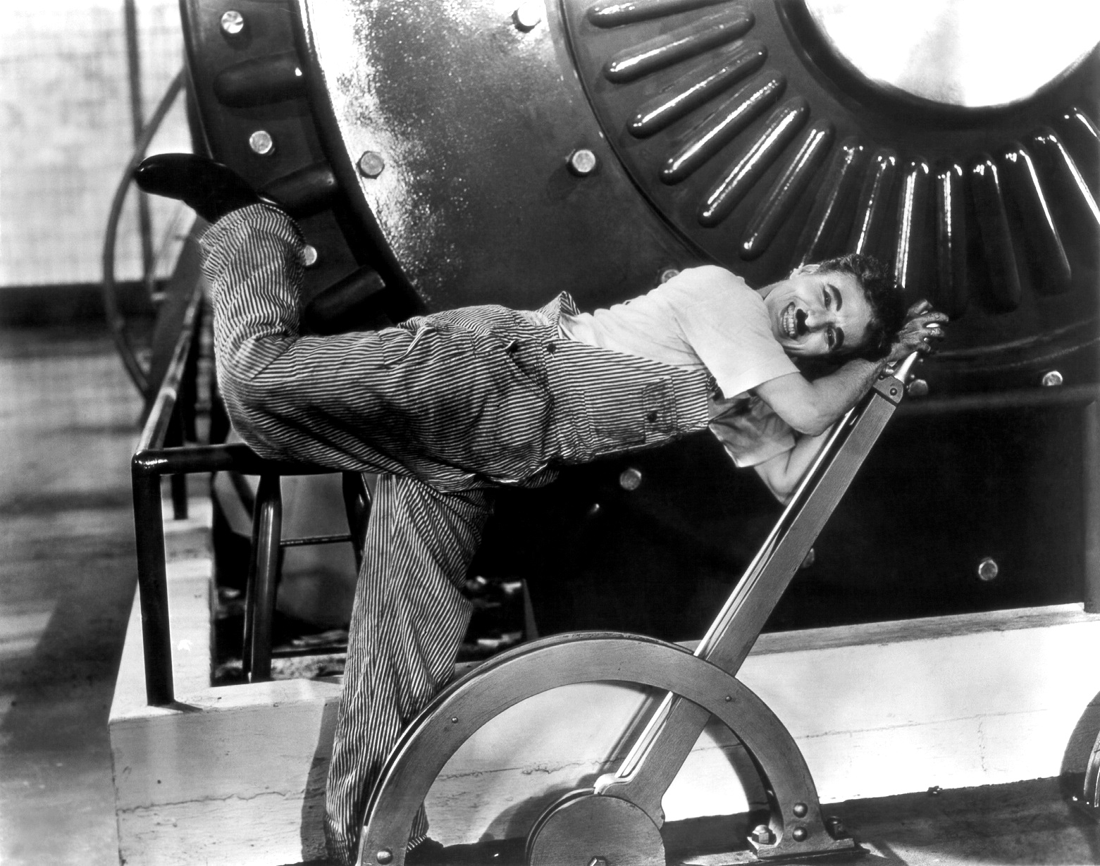 Publicity photo of Charlie Chaplin for the film Modern Times (1936).